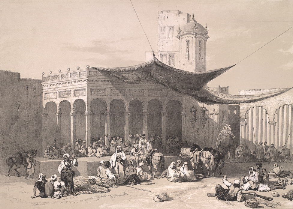 Artist: Harding, James Duffield (1797-1863), after Harding Medium: Lithograph Date: 1847 Plate 12 from "Recollections of India. Part 1. British India and the Punjab" by James Duffield Harding (1797-1863) after Charles Stewart Hardinge (1822-1894), the eldest son of the first Viscount Hardinge, the Governor General. This depicts Sikh soldiers receiving their pay at the Royal Durbar in Lahore. Following the first Anglo-Sikh War, the British prescribed that a large part of the Sikh army be disbanded with a diminution of pay to the remainder. The soldiers upon each successive overthrow of government had demanded large gratuities, an increase in pay and more expensive uniforms - amongst other things two golden arm bangles. When the regiments were paid off these bangles were deducted from their pay. Hardinge wrote, "It was the custom with Runjit Sing to reward with these bangles any attendant or officer whose peculiar skill or prowess in military exercises excited his